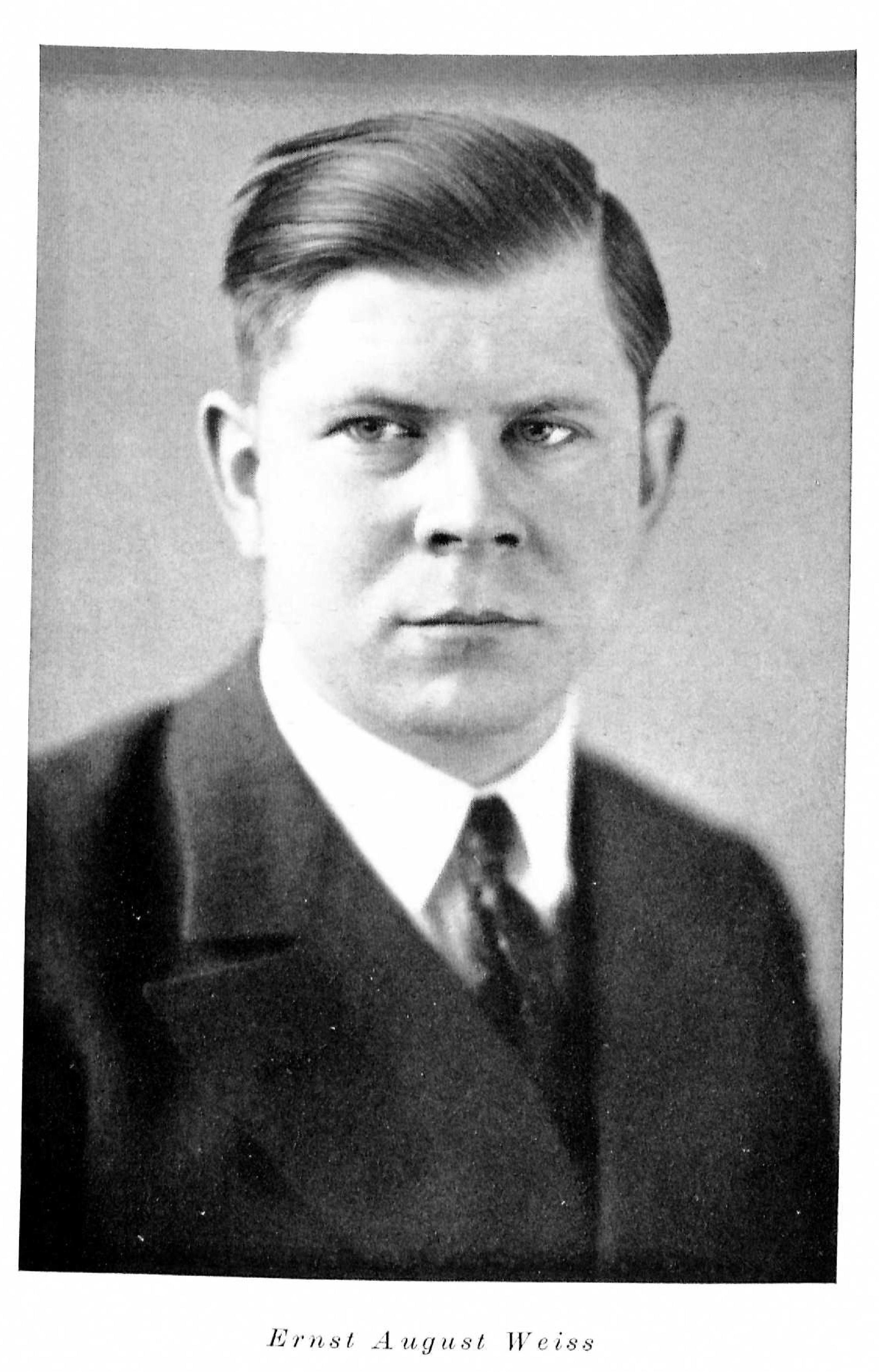 Portrait of Ernst August Weiss